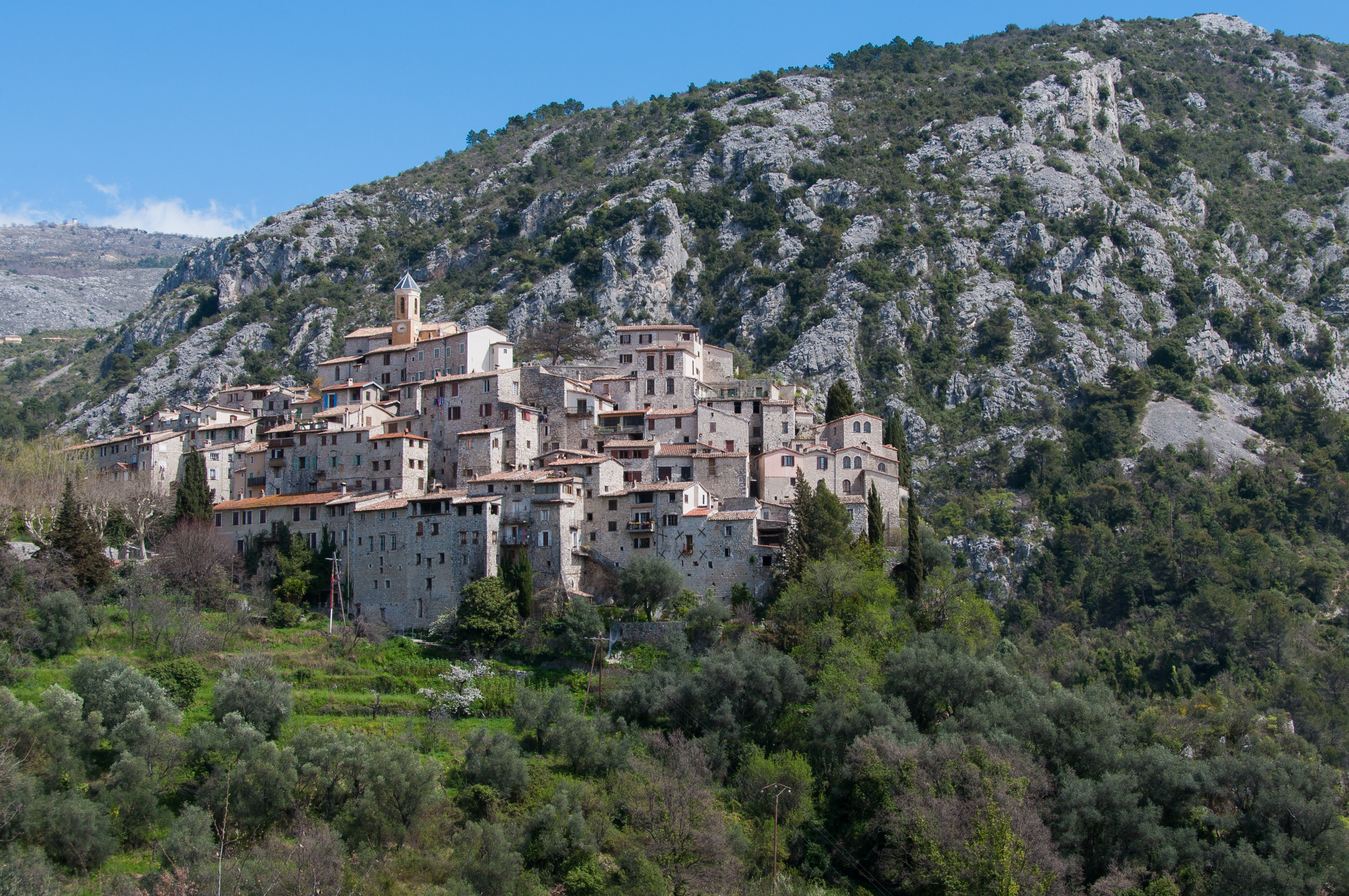 A view across the Paillon Valley of the town of Peillon, France. Peillon is a picturesque fortified village about 15 miles north of Nice, France. The village is perched on top of a high narrow rocky peak, with the compact collection of stone houses, narrow streets, vaulted passages, and sometimes steep stairs. The area has been inhabited since the Iron Age age and the first fortifed town was built on the site near the end of the 10th Century. Most of the current buildings date from the 19th Century, but a few date from the 17th Century. Peillon sits on top of a narrow peak about three miles from the Peillon-Saint Thecle SNCF train station (which houses a small railroad museum open during the summer months). The uphill walk to the town take a little over an hour following the road to town or a hiking path through the countryside. Unlike many other medieval towns in the area, Peillon is an authentic town which is not oriented towards tourists. There are not souvenir shops or other tourist-oriented facilities. The only amenities are one restaurant inside the town and two more in the auberges just outside the town.